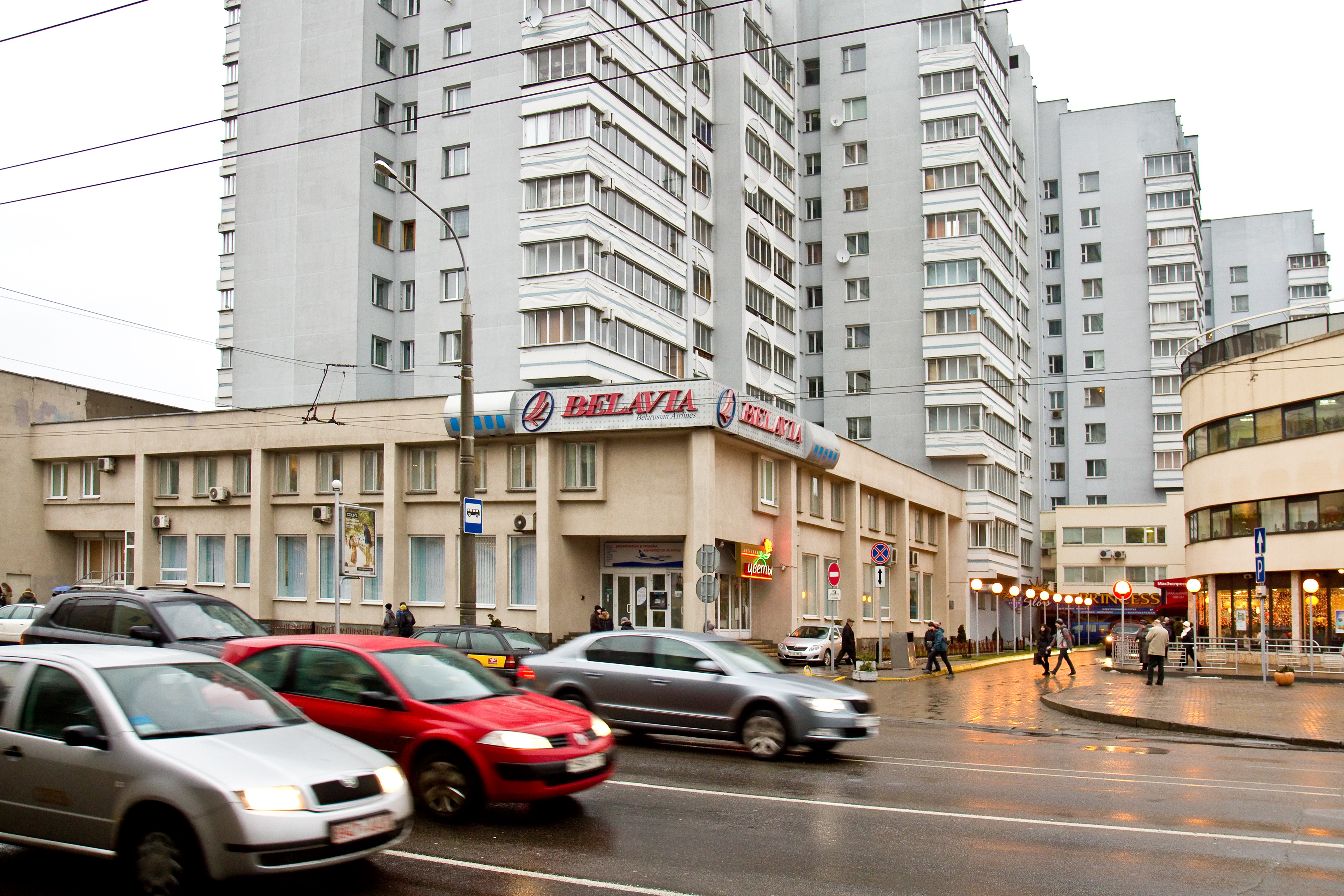 Belavia Headquarters, Minsk, Belarus. - 14, Nemiga str., Minsk, Belarus, 220004